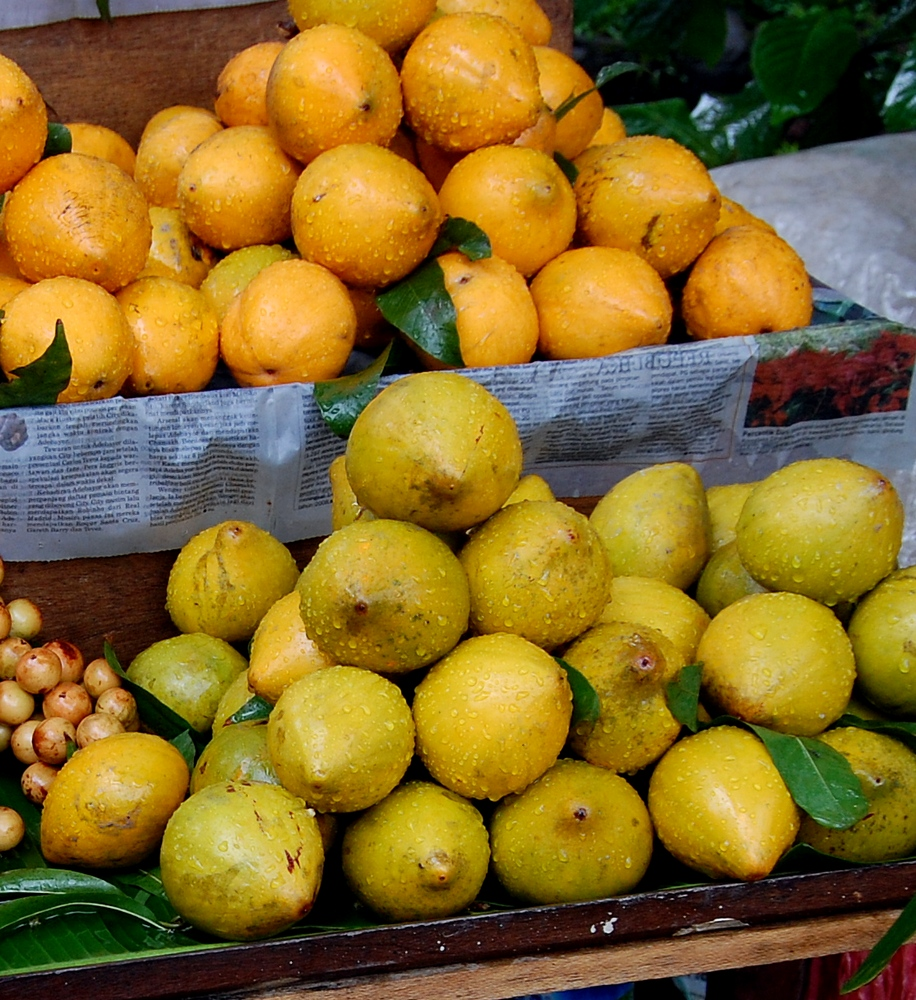 Pouteria campechiana fruits, sold at Ragunan Zoo, Jakarta.